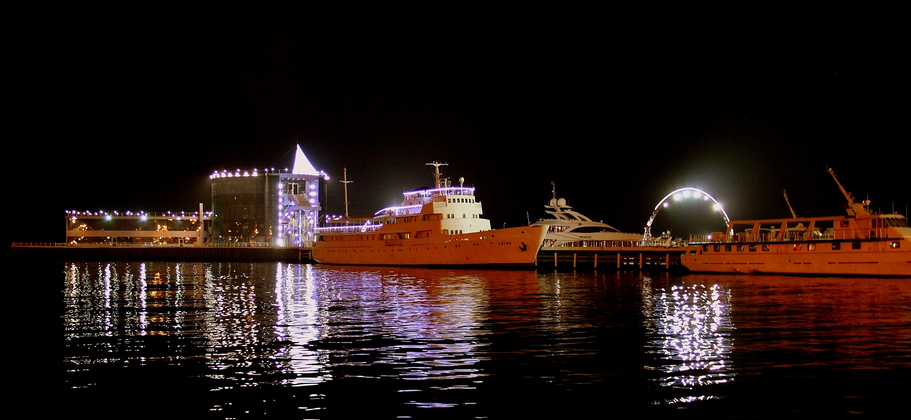 Yacht clubs in Baku